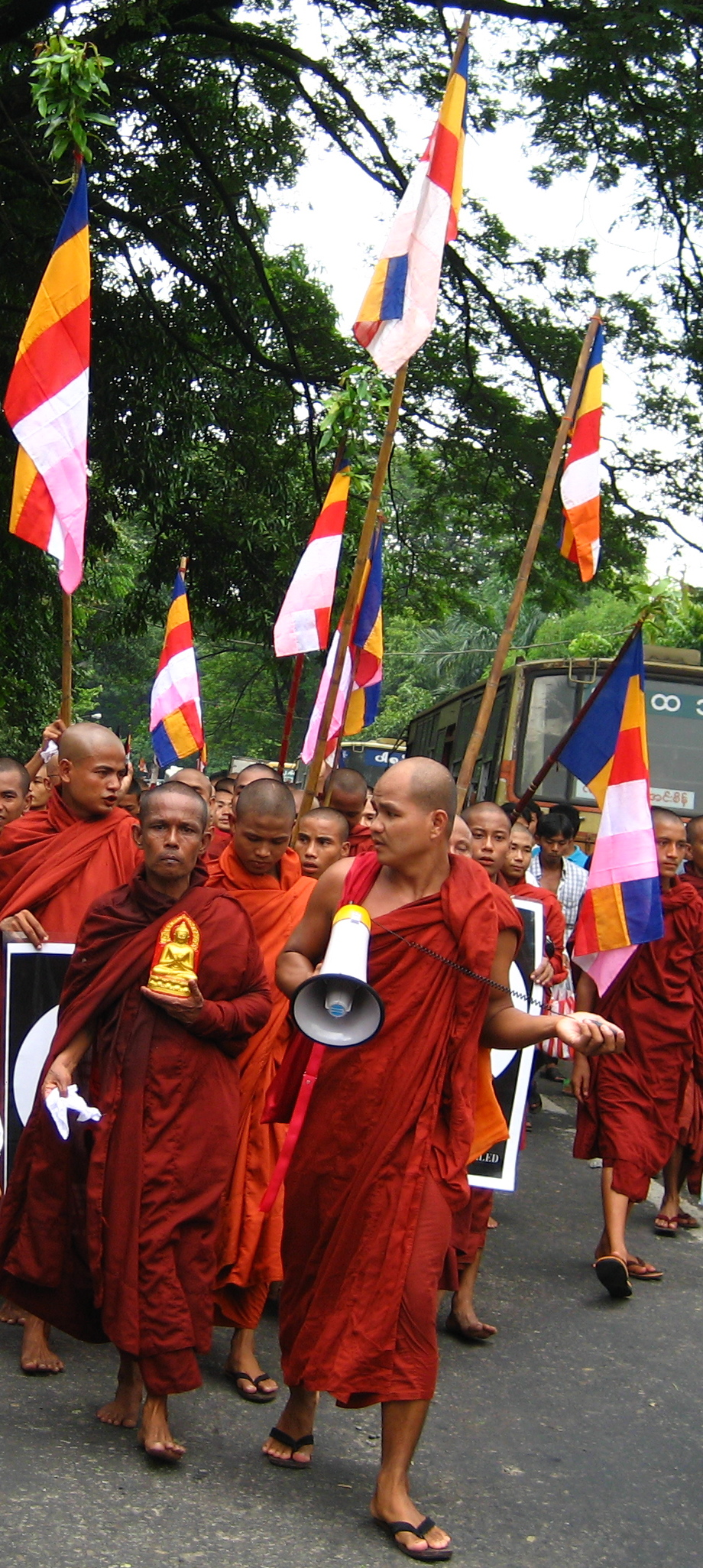 Monks Protesting in Burma (cropped version)